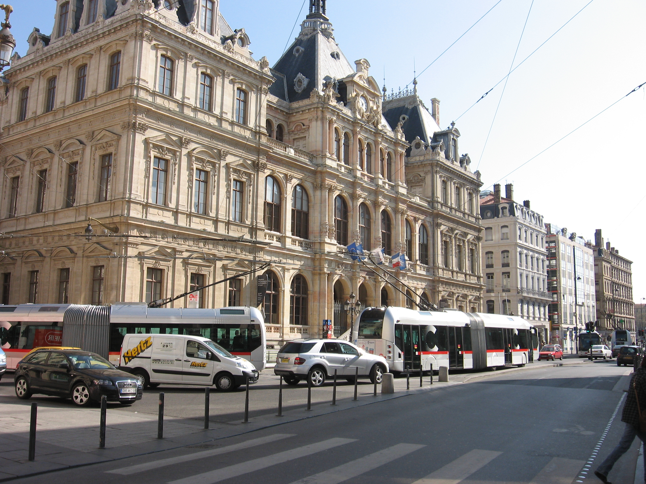 Trolleybus Lyon